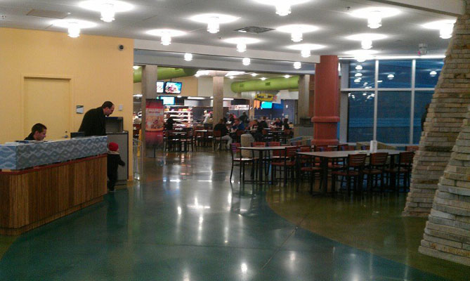 Main entrance of the first floor of the new University Center Building of the University of Southern Indiana.